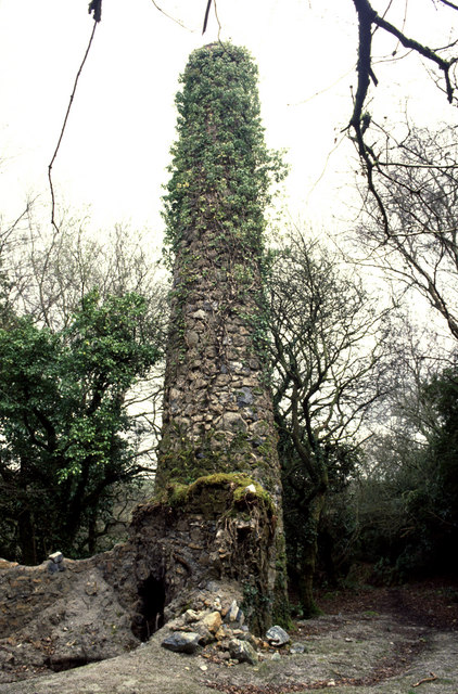 Chimney, Trethowel clay works. This is the chimney associated with the previously illustrated ruinous steam engines186563. At the foot of the chimney there had been a Cornish boiler - now at the National Trust's Levant whim site.